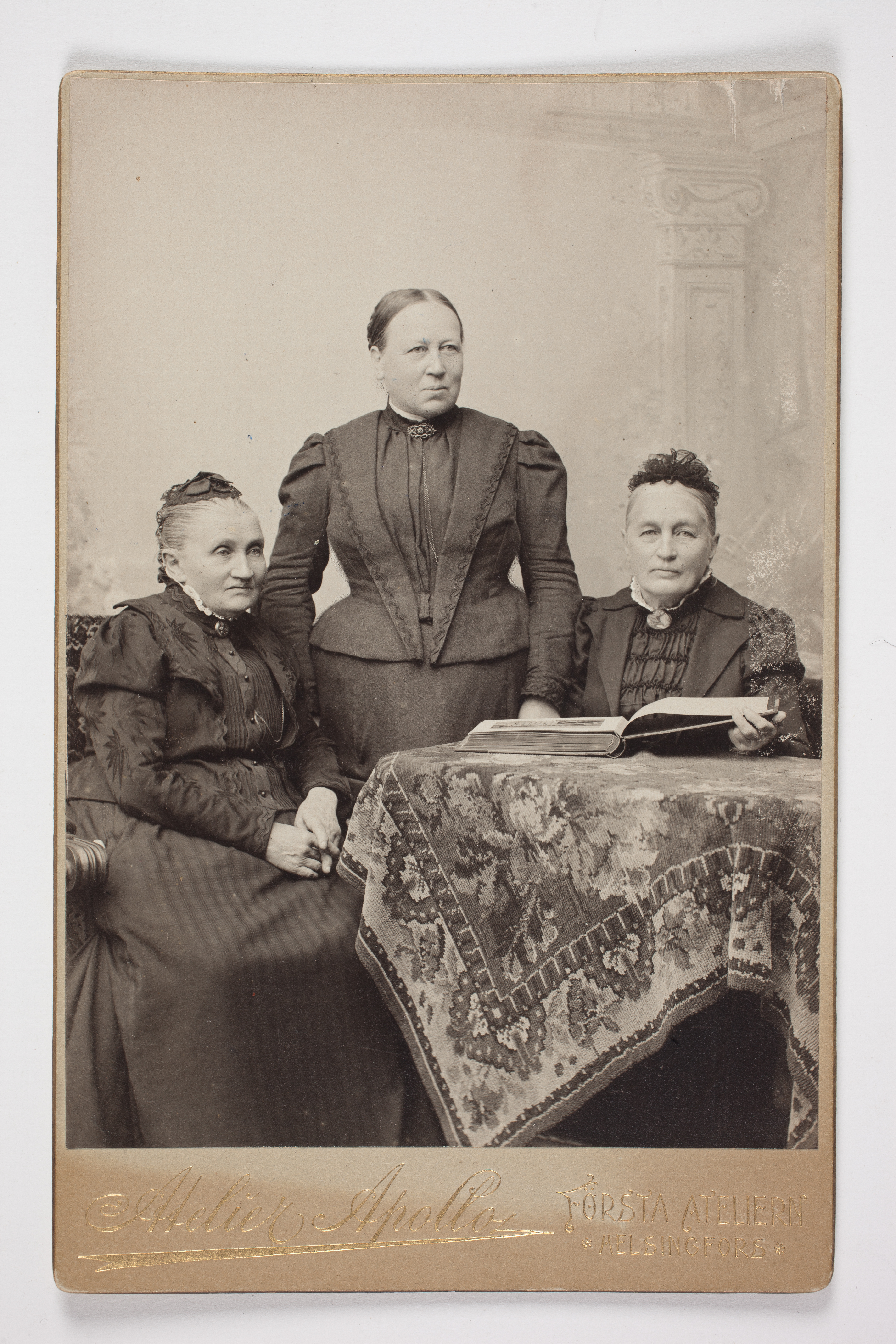 Augusta och Jetta Nyberg, stående Alexandra Smirnoff. visitkort Foto: Atelier Apollo Helsingfors, Finland Svenska litteratursällskapet i Finland